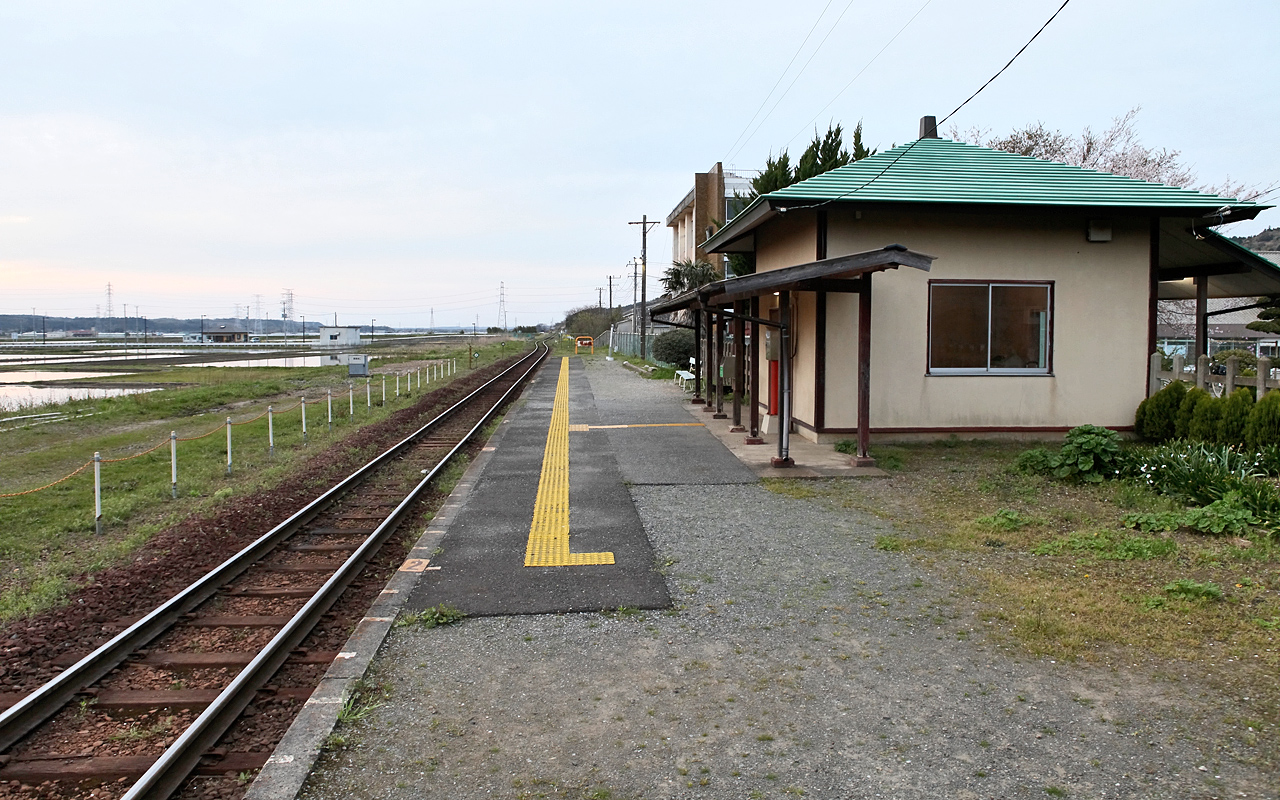 JR East Obitsu Station